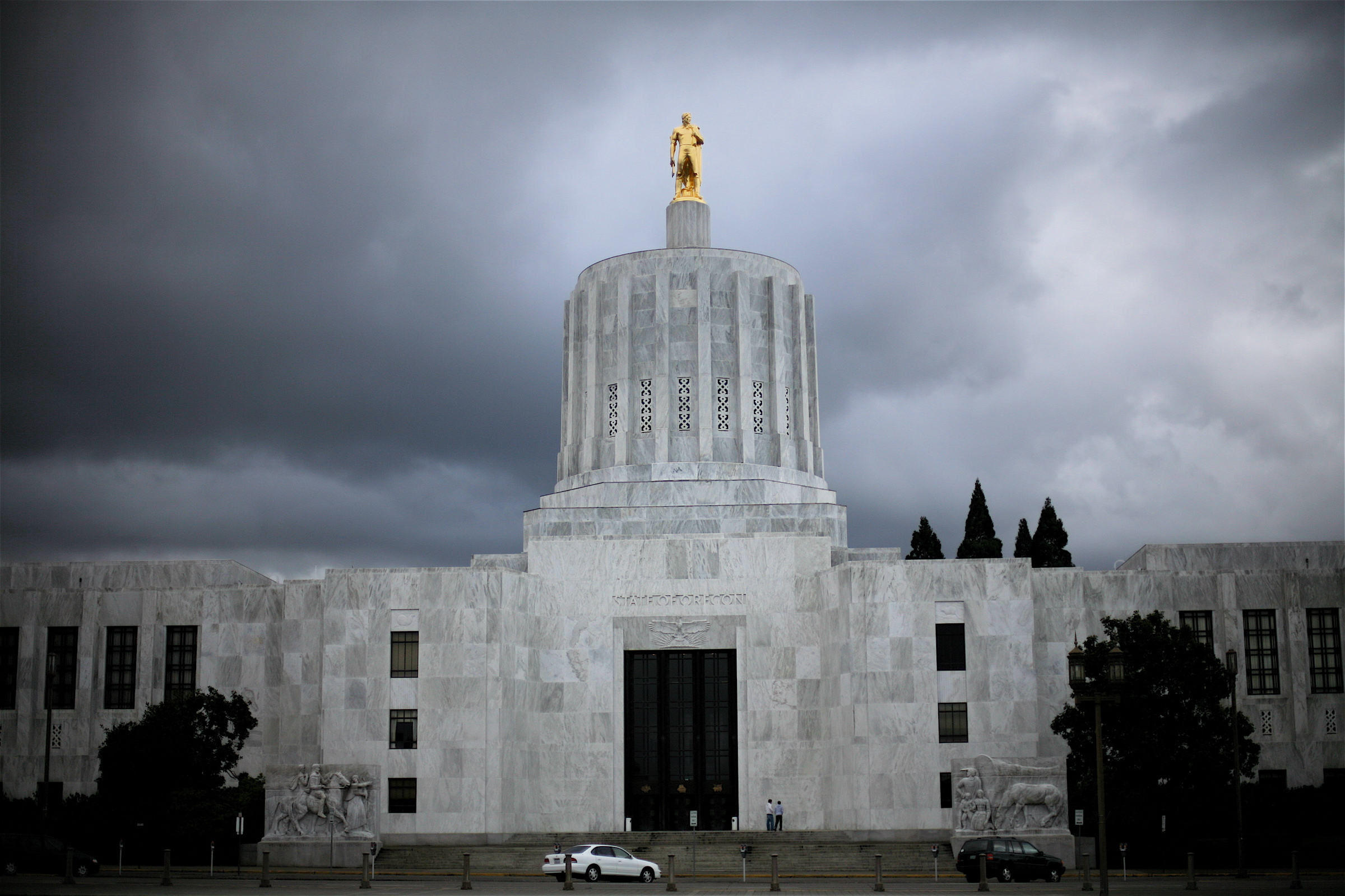 The Oregon State Capitol Building.